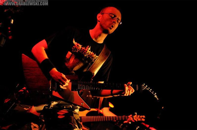 Pilate during a show in 2011.